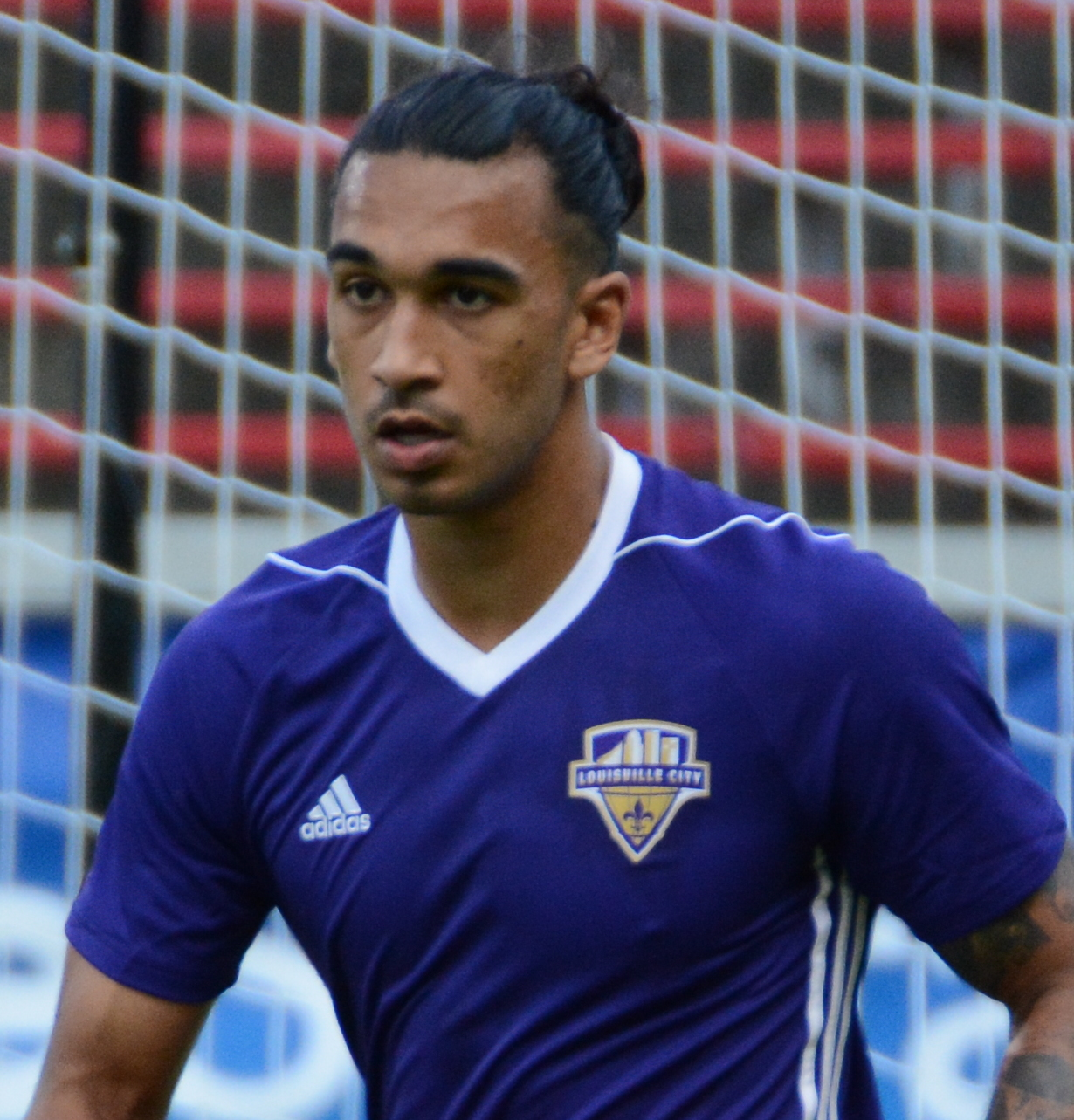 Goalkeeper Greg Ranjitsingh during pre-match practice. Taken at a Lamar Hunt U.S. Open Cup match between FC Cincinnati and Louisville City FC at Nippert Stadium in Cincinnati, Ohio on May 31, 2017.